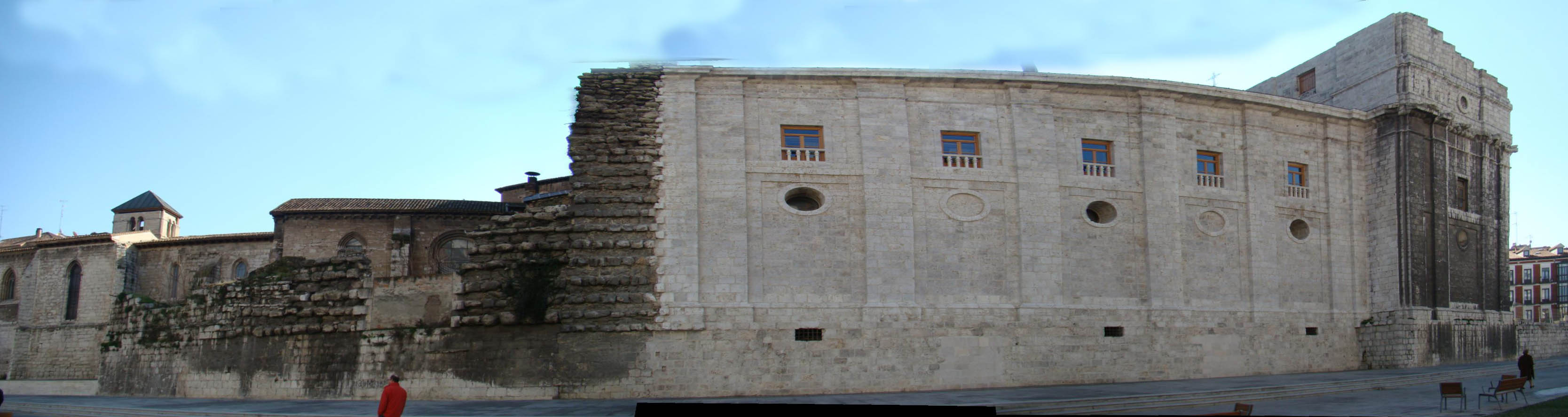 Valladolid. Panoramic of the western facade of the cathedral. You can see, on the left, the part built according to the plans of Juan de Herrera. Then, the ruins of the ancient collegiate church.